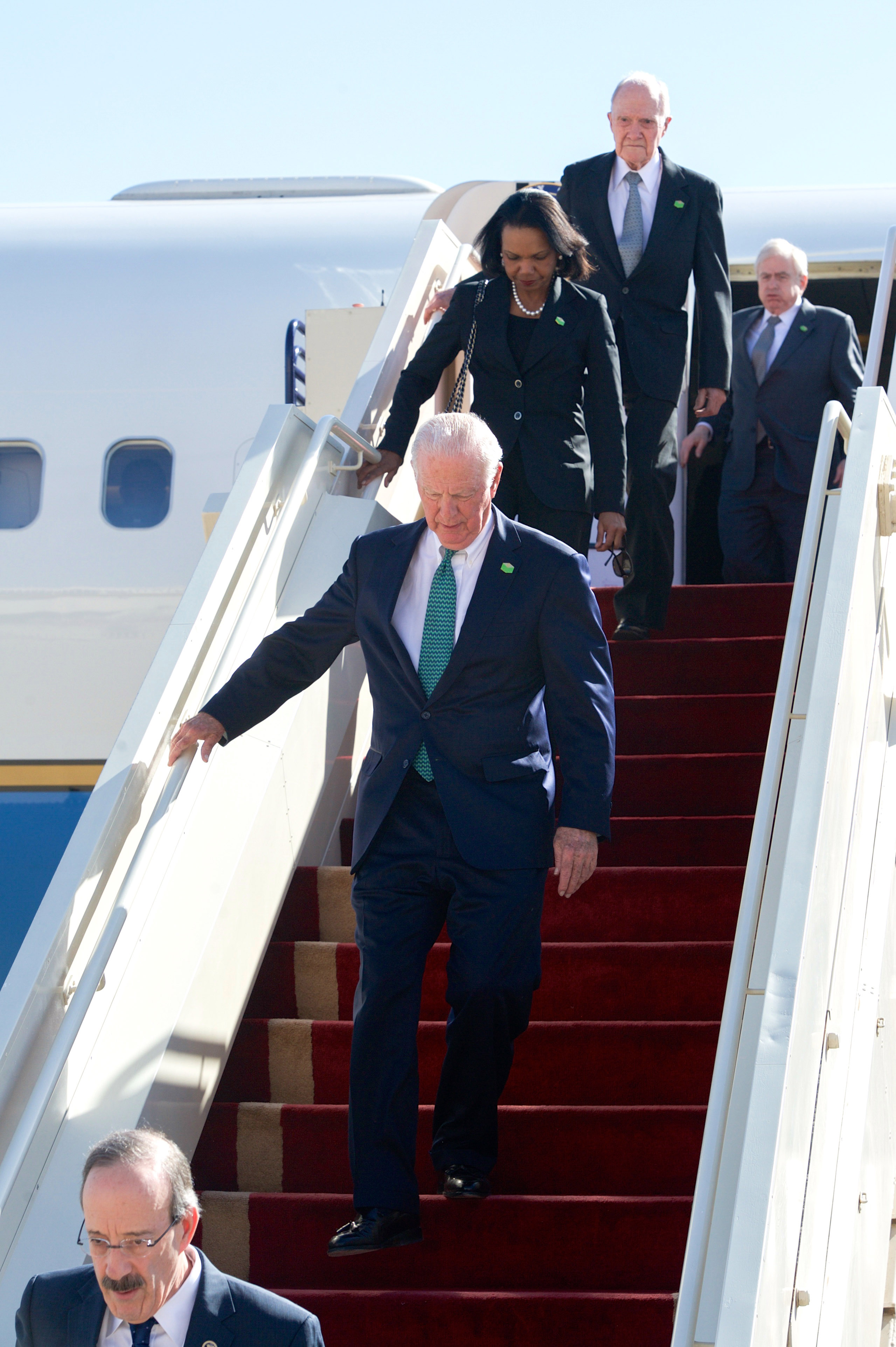 U.S. Representative Eliot Engel of New York, former U.S. Secretaries of State James Baker and Condoleezza Rice, and former National Security Adviser Brent Scowcroft disembark from an Air Force jet that carried them from Washington, D.C., to King Khaled International Airport in Riyadh, Saudi Arabia, on January 27, 2015, to extend condolences to the late King Abdullah and call upon and meet with the new King Salman. [State Department photo/ Public Domain]